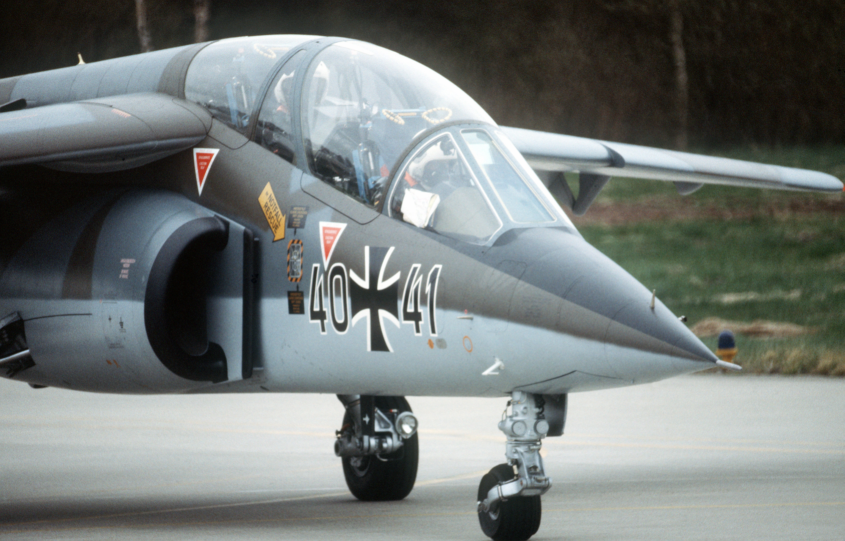 A German Luftwaffe (Air Force) Dornier Alpha Jet A (s/n 40+41, c/n 0041/1096) of the Jagdbombergeschwader 49 (JaboG 49) (49th Fighter-Bomber Wing) at Jever Air Base, Lower Saxony, Germany, in 1980. The aircraft took part in the "Tactical Leadership Program", a joint venture of Allied Air Forces Central Europe nations, which started at Jever in 1979. The JaboG 49 at Fürstenfeldbruck, Bavaria, flew the Alpha Jet from 1978 to 1994, when the wing was disbanded. Aircraft "40+41" was sold to Portugal as 15213.